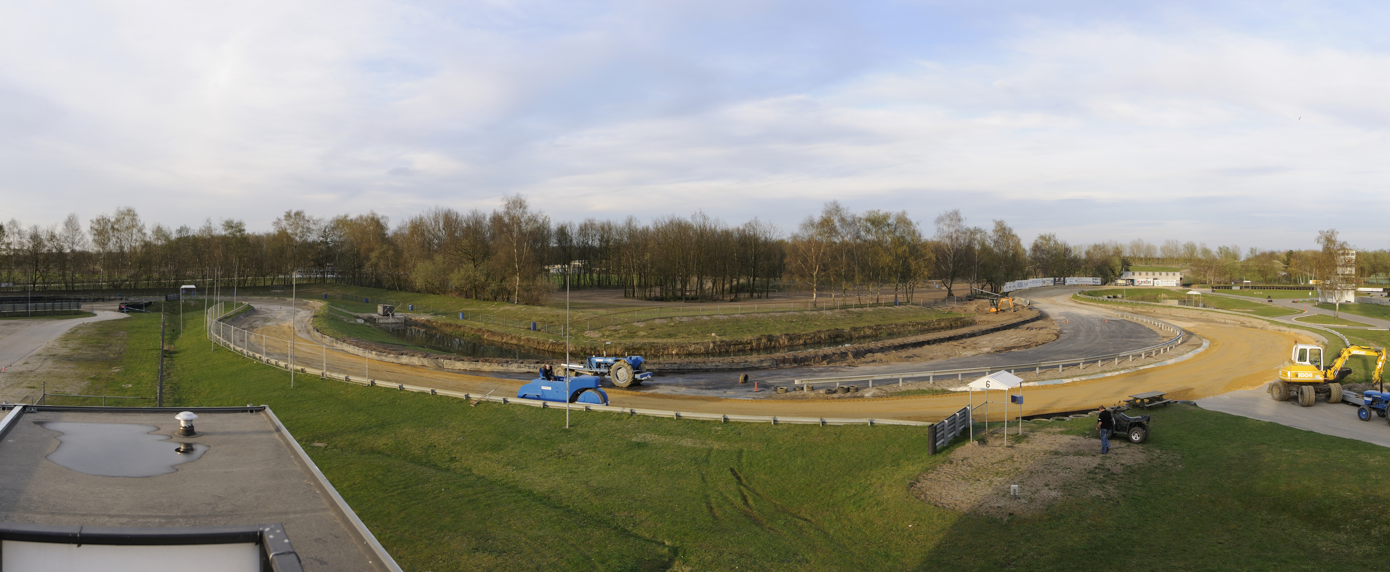 Panoramic view of eurocircuit jokerlap